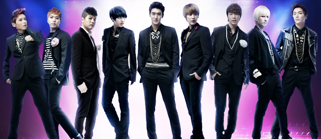 Cropped file from [1]